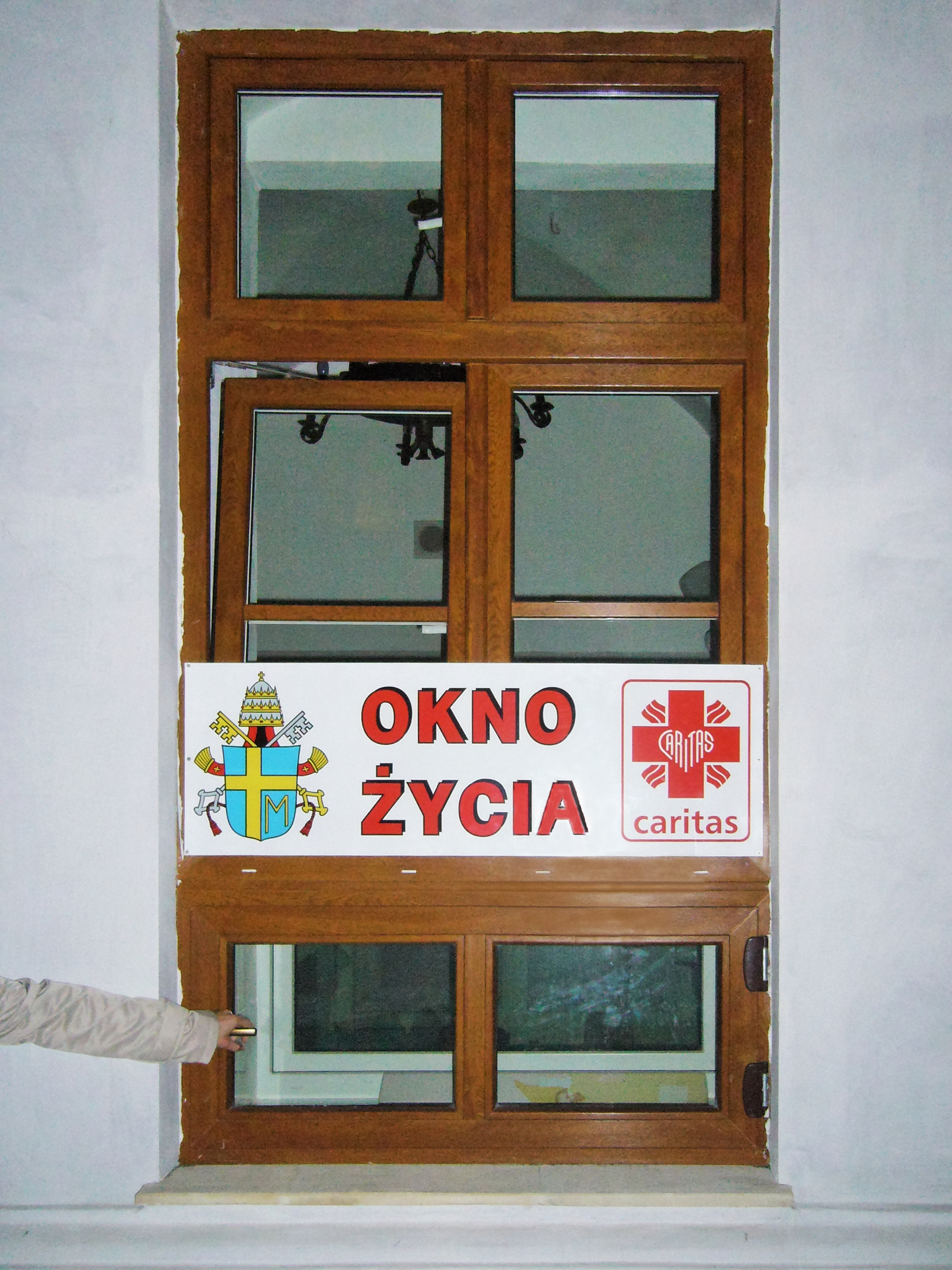 Baby Hatch in Poland, where unwanted babies can be safely abandoned. The literal translation of "OKNO ŻYCIA" means "Window of Life".